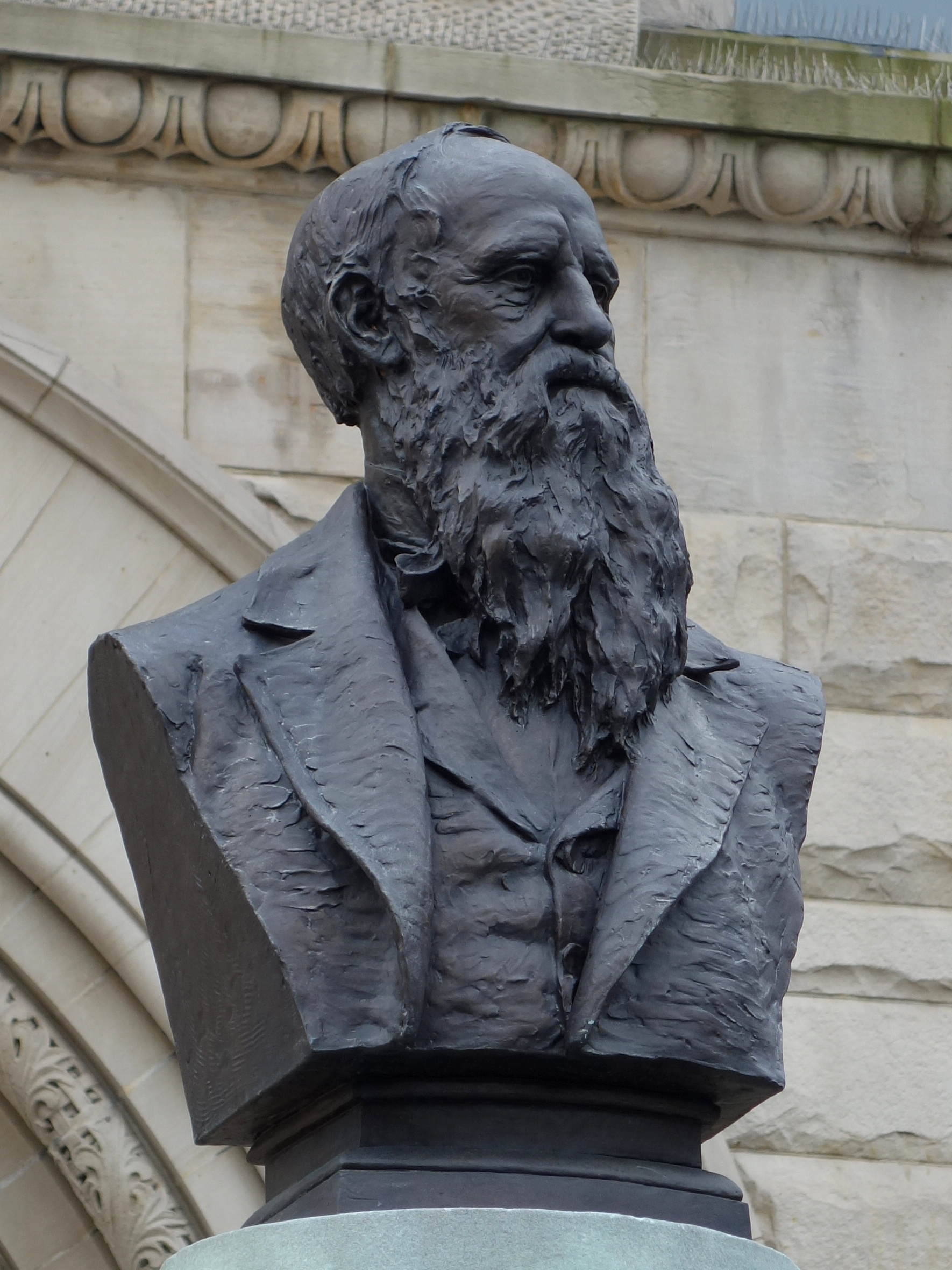 Memorial to J. M. Jackson, Parkersburg (Jackson Fountain), West Virginia, USA. Honoring congressman James Monroe Jackson (1825 - 1901). Sculptor: John Massey Rhind (1860-1936). Dedicated Jan. 18, 1902. See Smithsonian Institution entry: [1]. This artwork is in the public domain because the artist died more than 70 years ago.